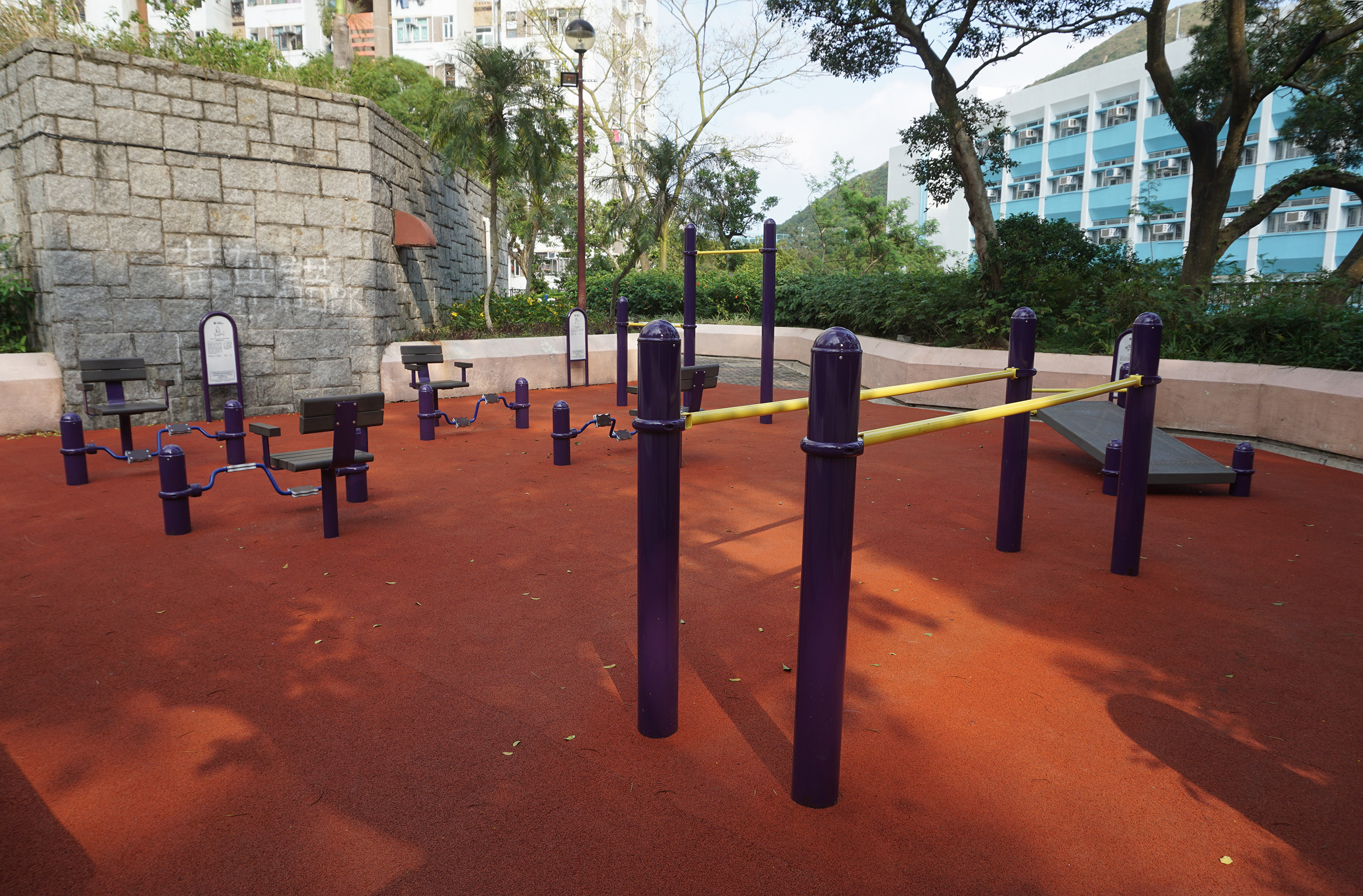 Lei Tung Estate in Ap Lei Chau, Hong Kong.